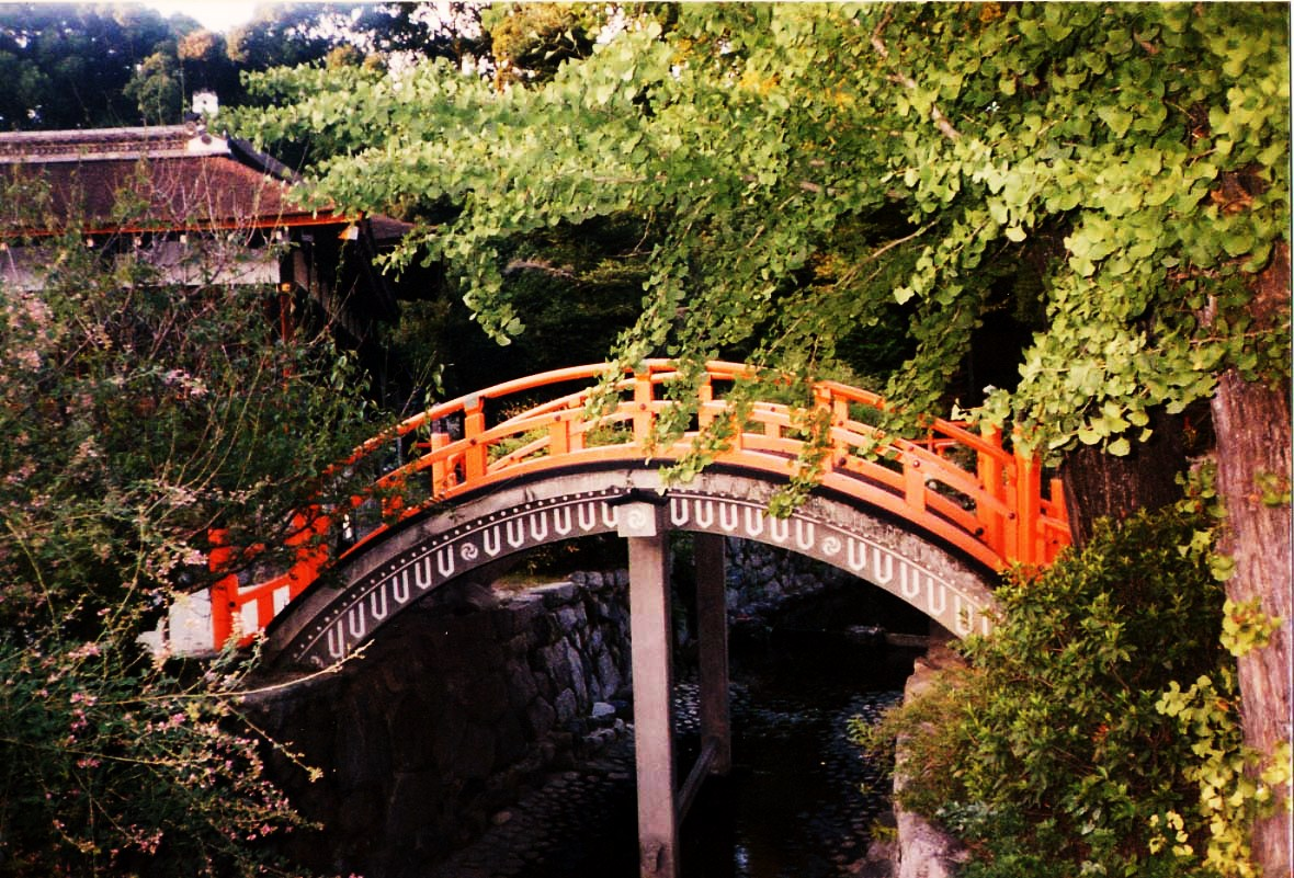 A classical Japanese shrine bridge at Shimogamo shrine